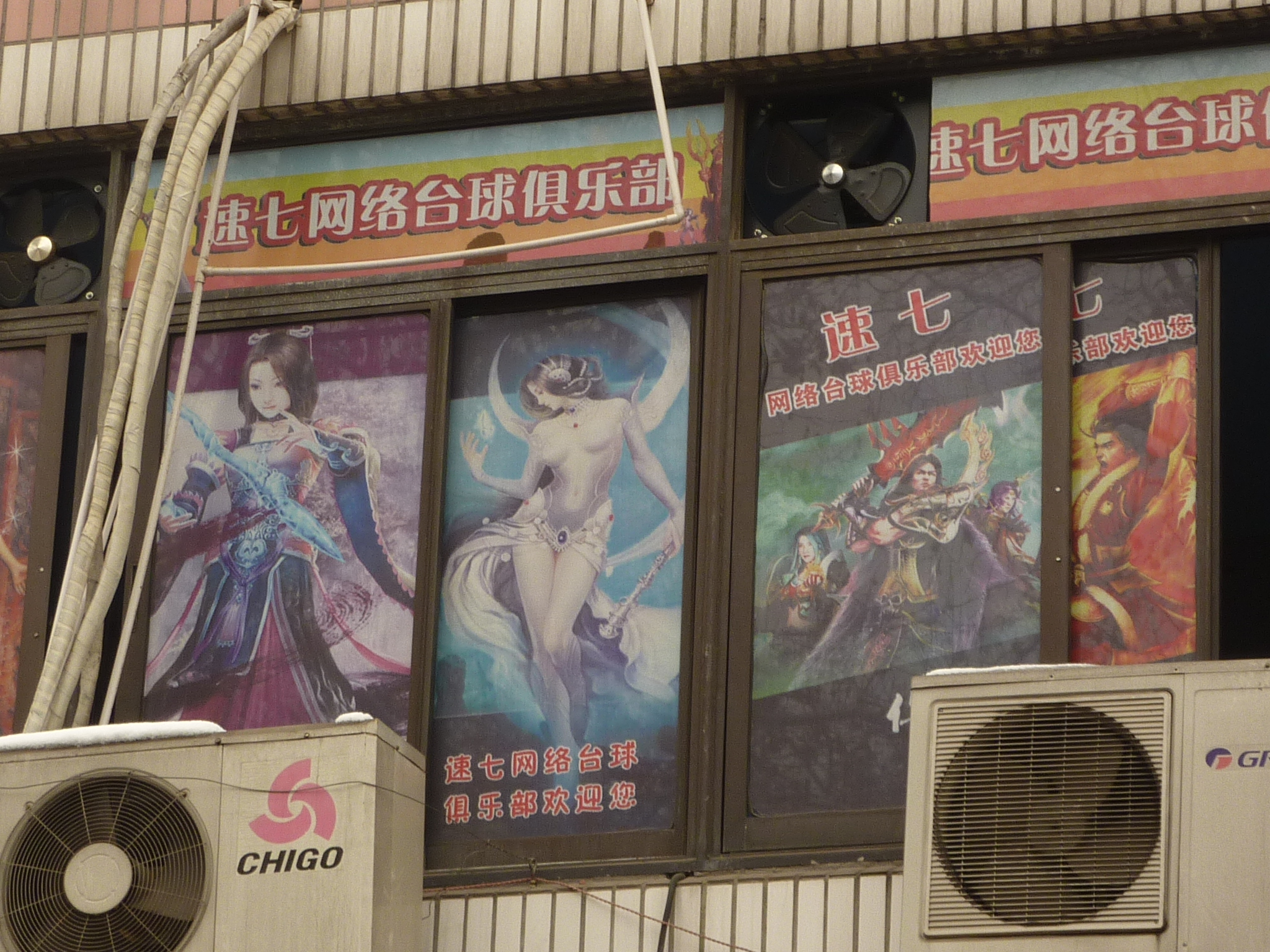 A building with the sign for internet cafe / billiards / chess boards in Wuhan, near Jiefang Lu and Wuluo Lu